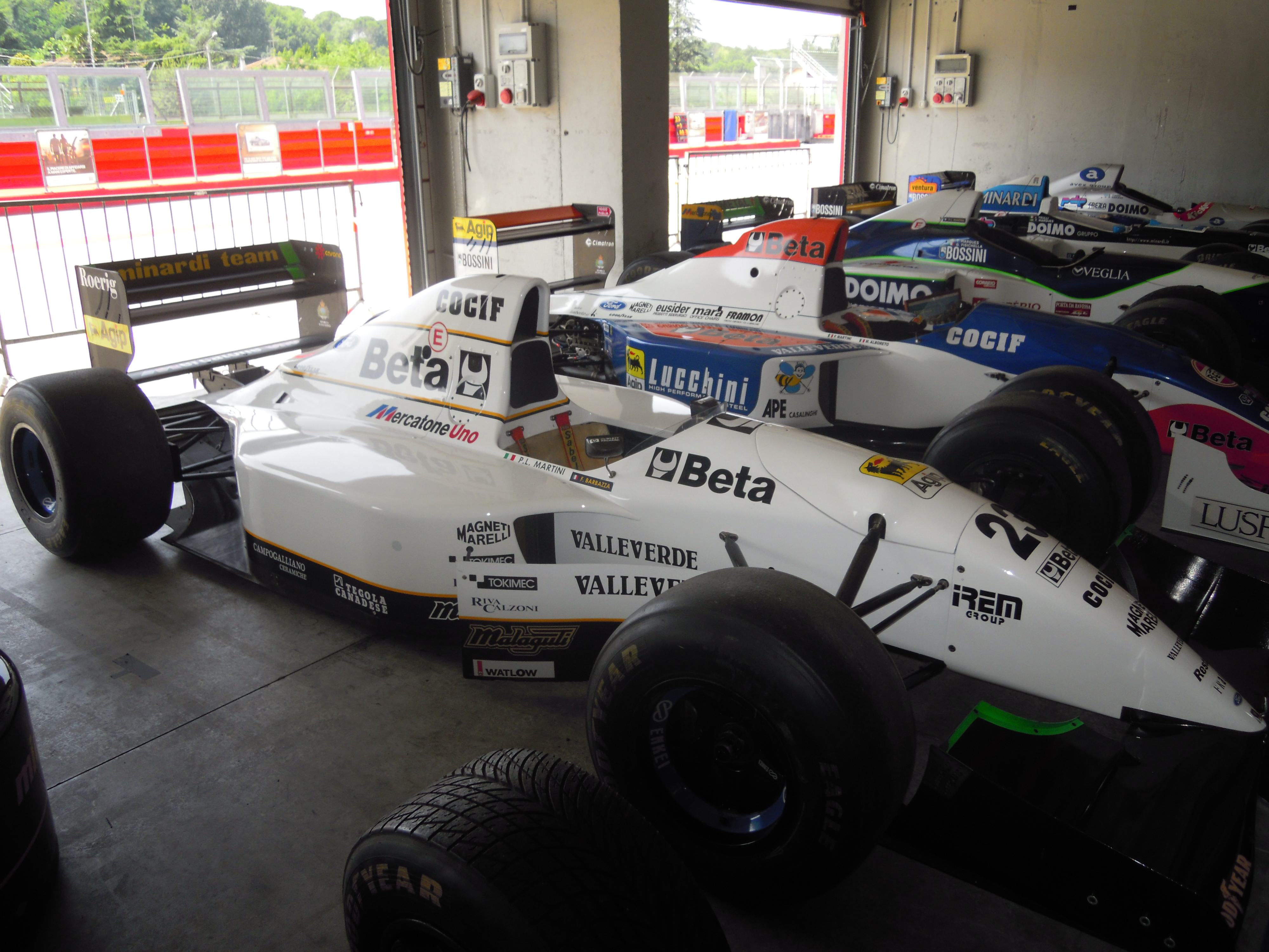 Minardi M193 exposed at the Autodromo Enzo e Dino Ferrari